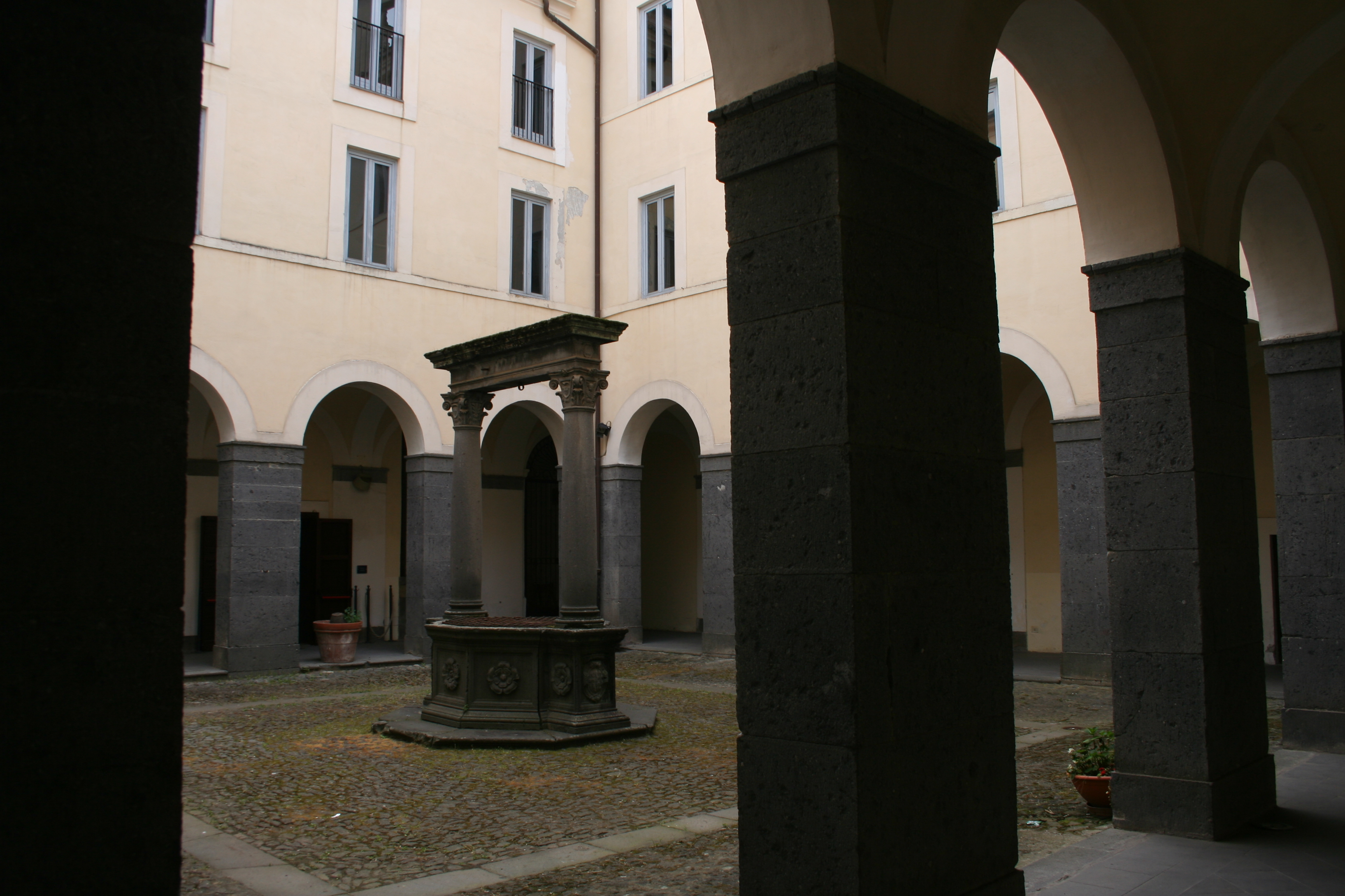 Civic Museum